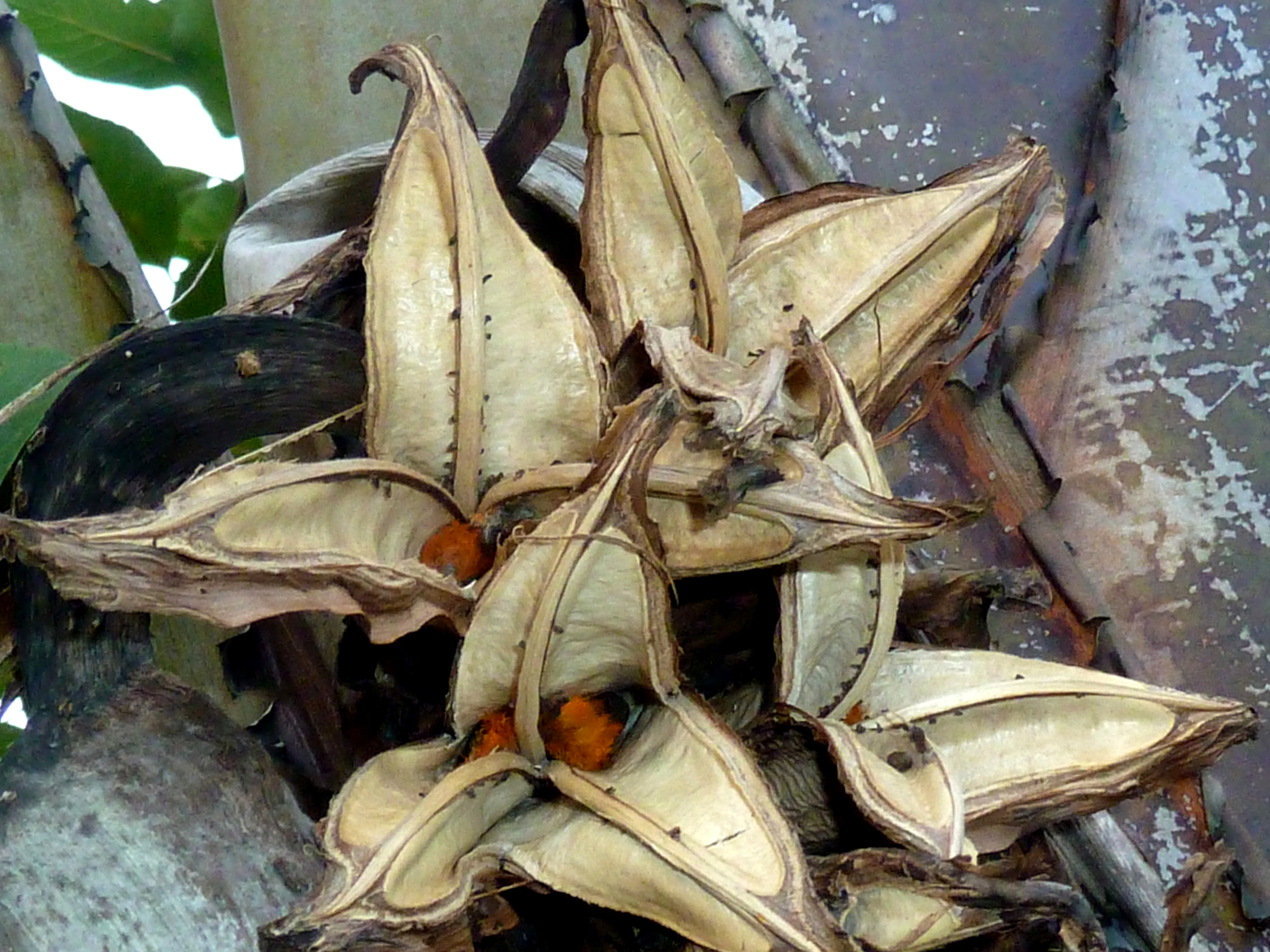 Dry, open fruit and seed of Natal wild banana in Iphithi Nature Reserve, Gillitts, KZN